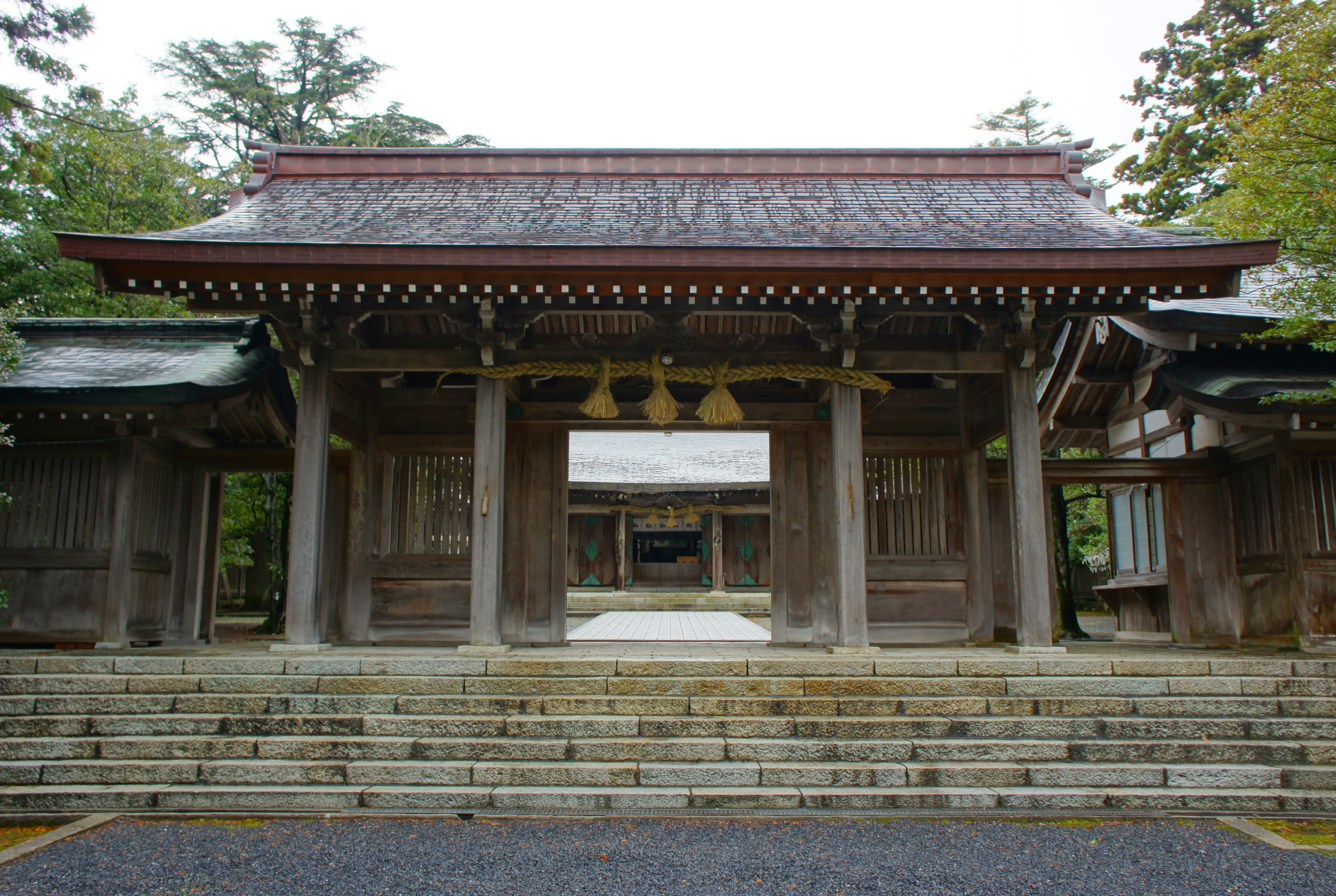 Nawa-jinja Rōmon (Daisen, Tottori Prefecture, Japan)